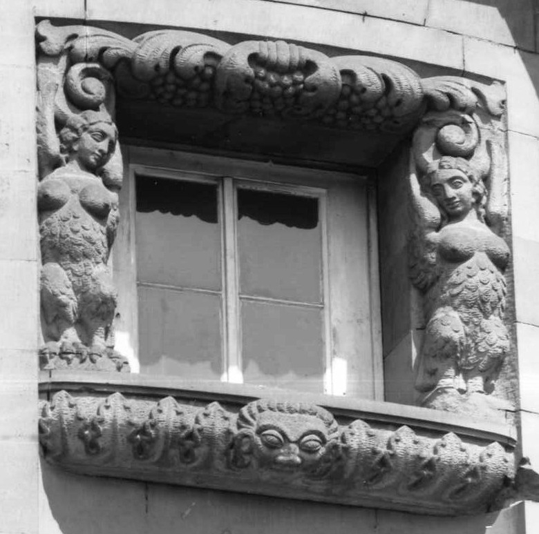 Heilbronn Theater